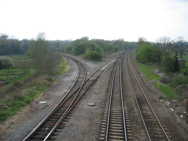 Hatton Junction The ex-GWR Mainline to Birmingham Snow Hill gently sweeps right and the now single track to Stratford-upon-Avon via Bearley Junction turns off left.